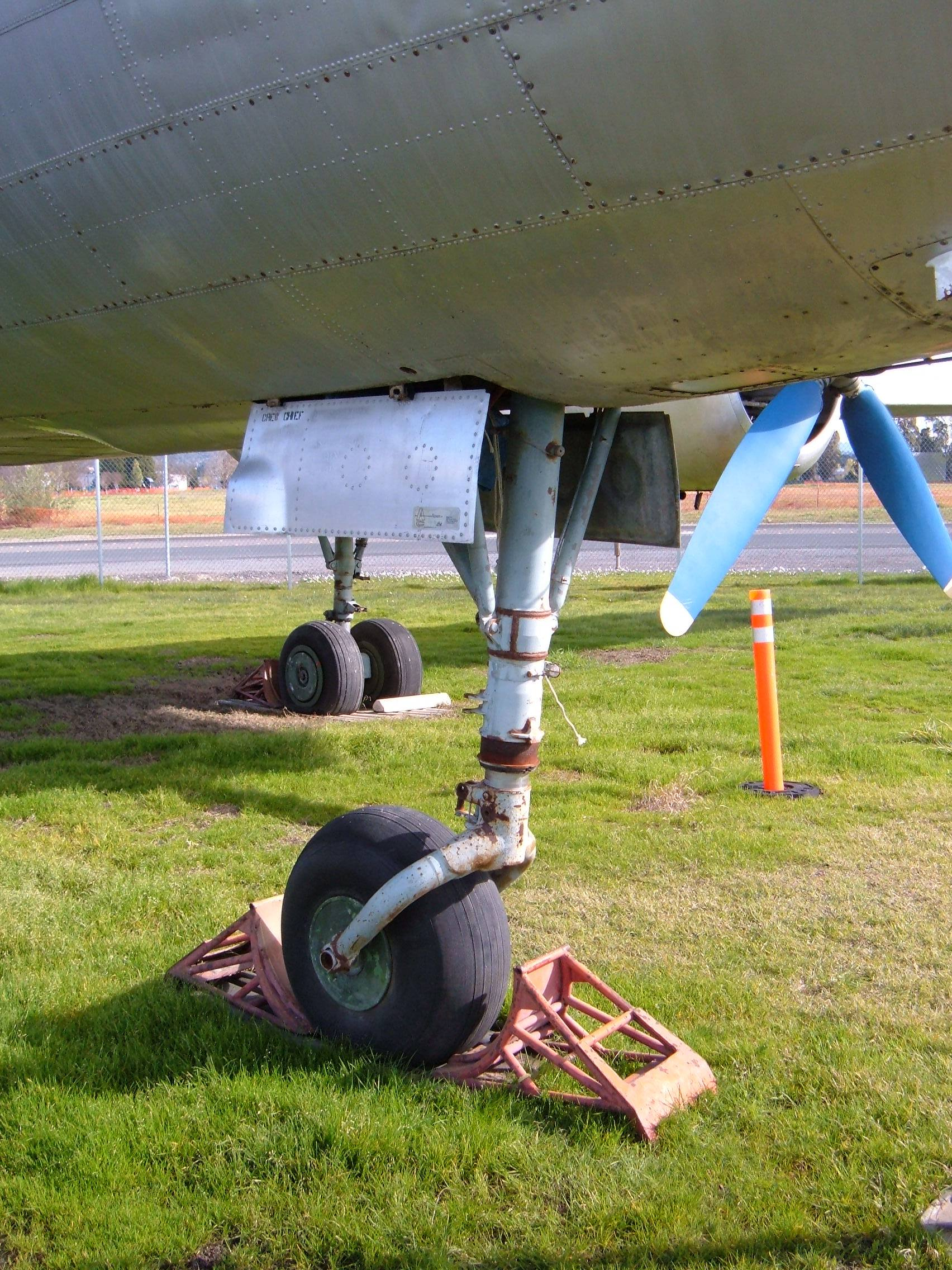 The forward landing gear (port side rear landing gear visible) of an Ilyushin Il-14 "Crate" on display at the Pacific Coast Air Museum in Santa Rosa, California.